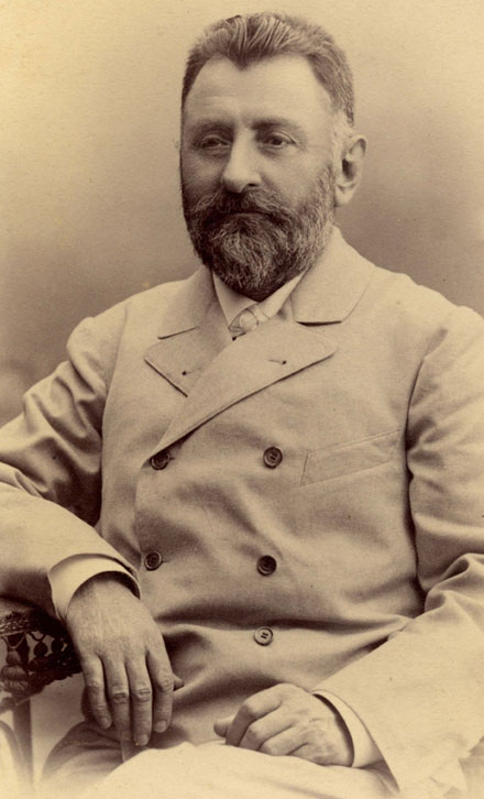 The photo of Iakob Gogebashvili, a georgian poet & writer.